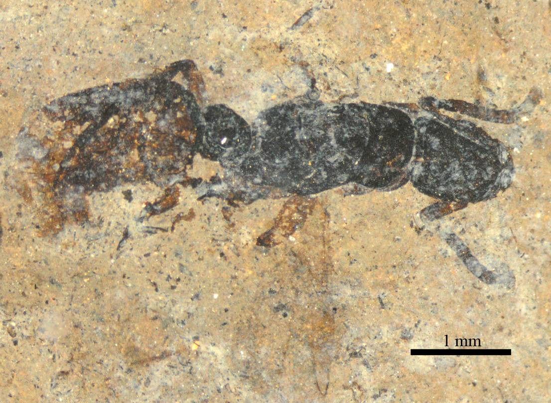 The Cyrtopone elongata holotype queen. Fossil preserved as a dorsal impression. Specimen SMFMEI10617